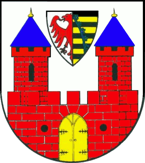 Coat of arms of the Stadt (town) Lauenburg/Elbe in Schleswig-Holstein, Germany.